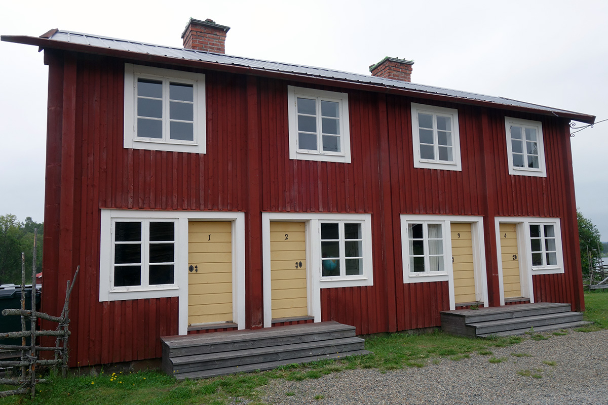 The only remaining old church cottage in Burträsk, Västerbotten, Sweden. It has been refurbished and moved to an open air museum.